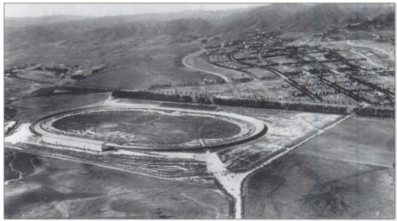 Aerial photograph of the Beverly Hills Speedway built in 1921 which measured 193 acres. Constructed by an association of men which included